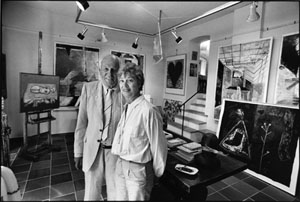 Theodor Ahrenberg and Ulla Ahrenberg